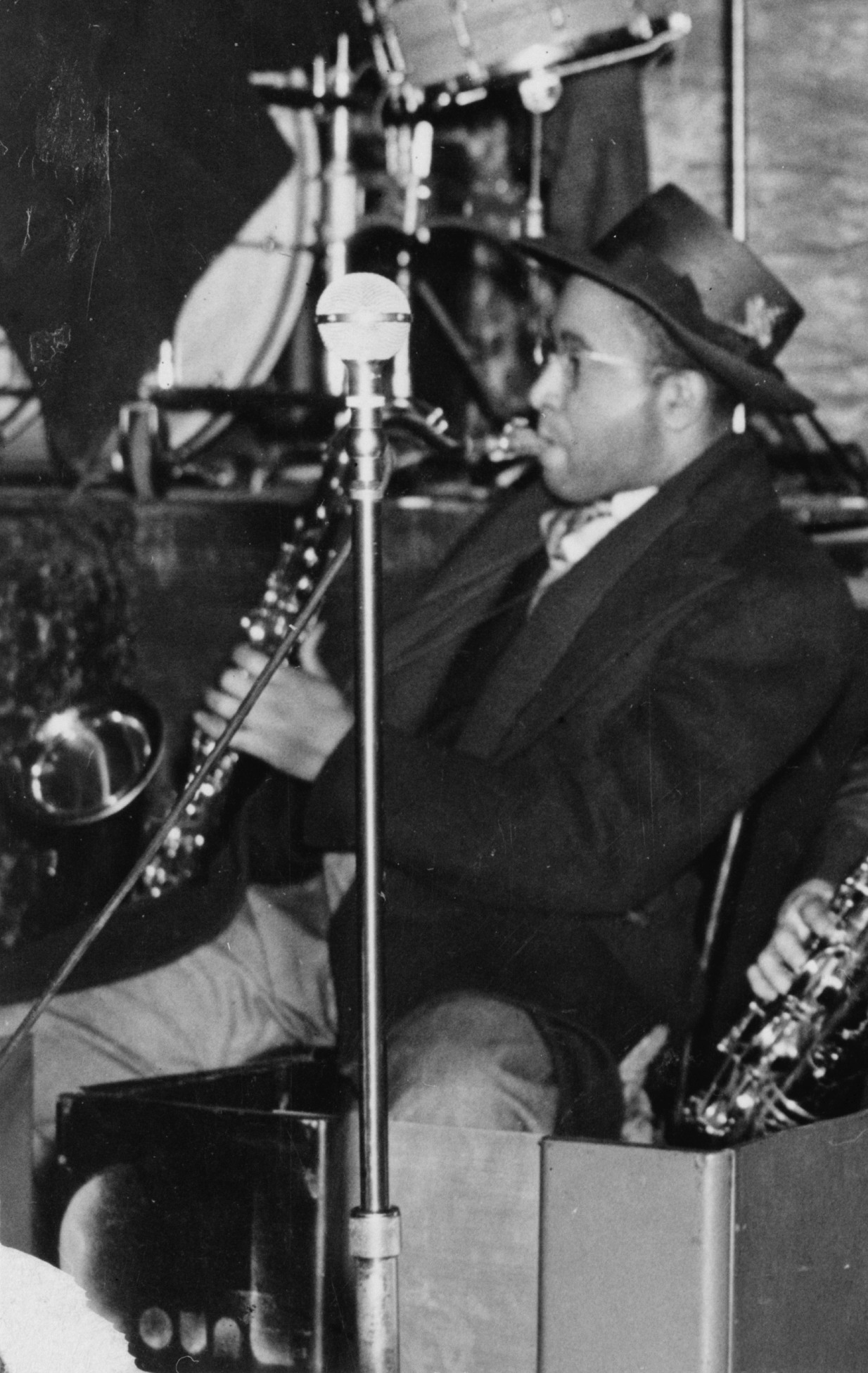 Ray Bauduc, Herschel Evans, Bob Haggart, Eddie Miller, Lester Young, Matty Matlock, Howard theatre, Washington D.C., ca. 1941. Photography by William P. Gottlieb